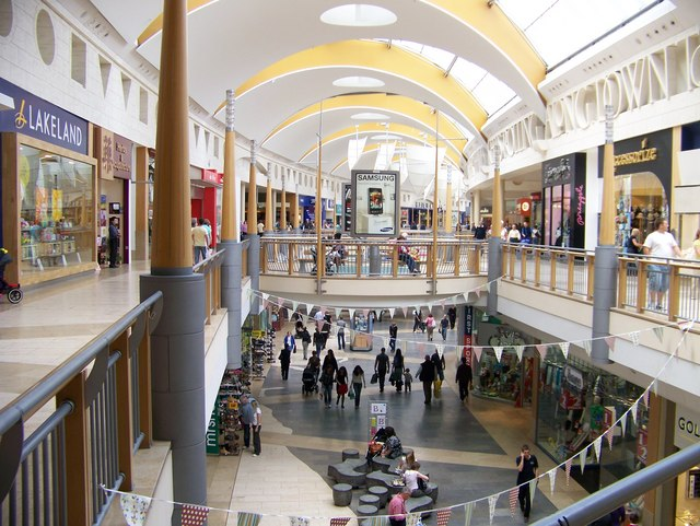 The upper shopping area at Bluewater shopping centre